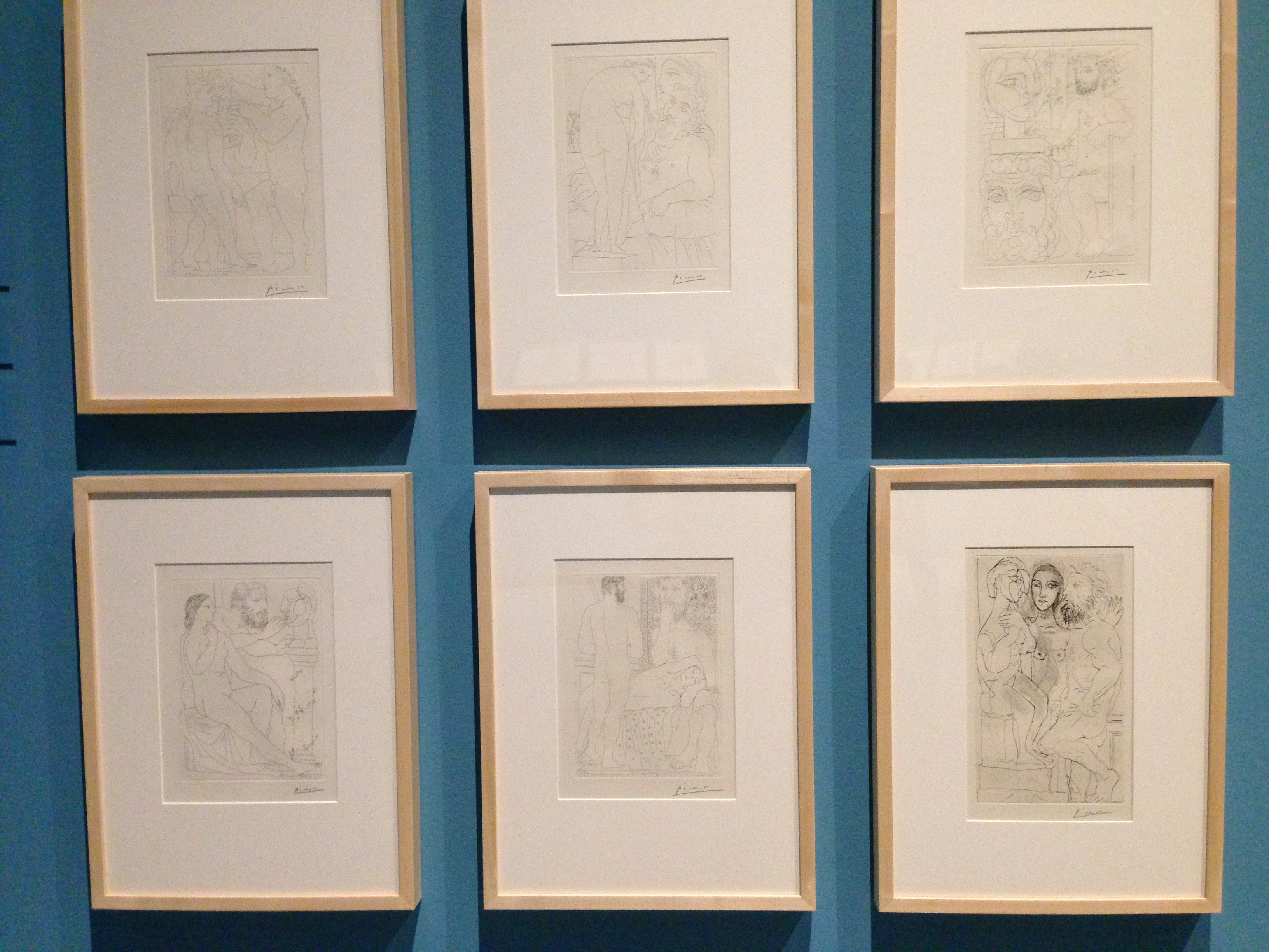 Vollard Suite, in two sprecial exhibitions: Picasso in Canada and Picasso: Man & Beast. The Vollard Suite of Prints. Winnipeg Art Gallery, Manitoba (2017)